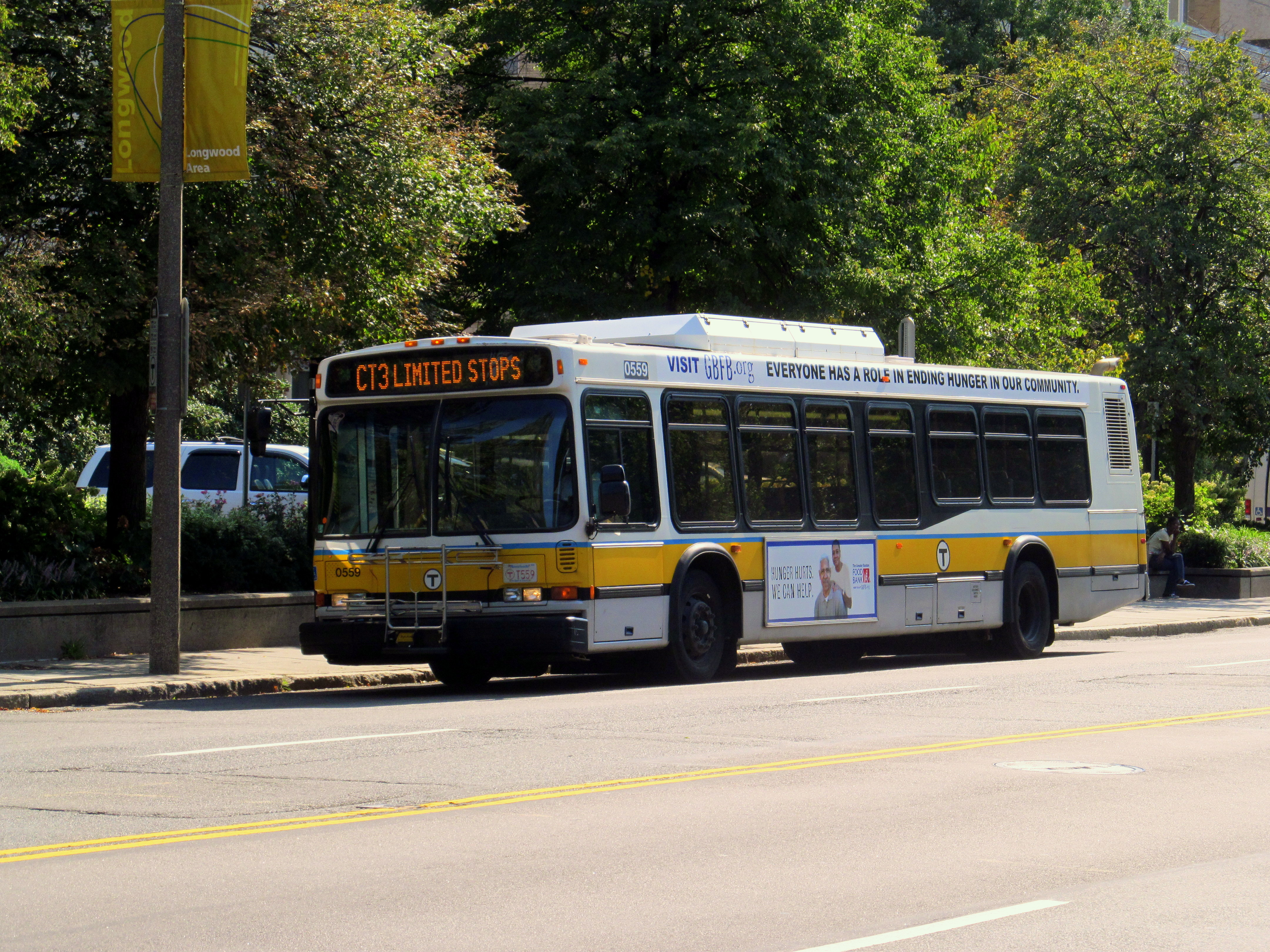 A CT3 bus running north on Brookline Avenue, part of its one-way loop through the Fenway / Longwood Medical Center area